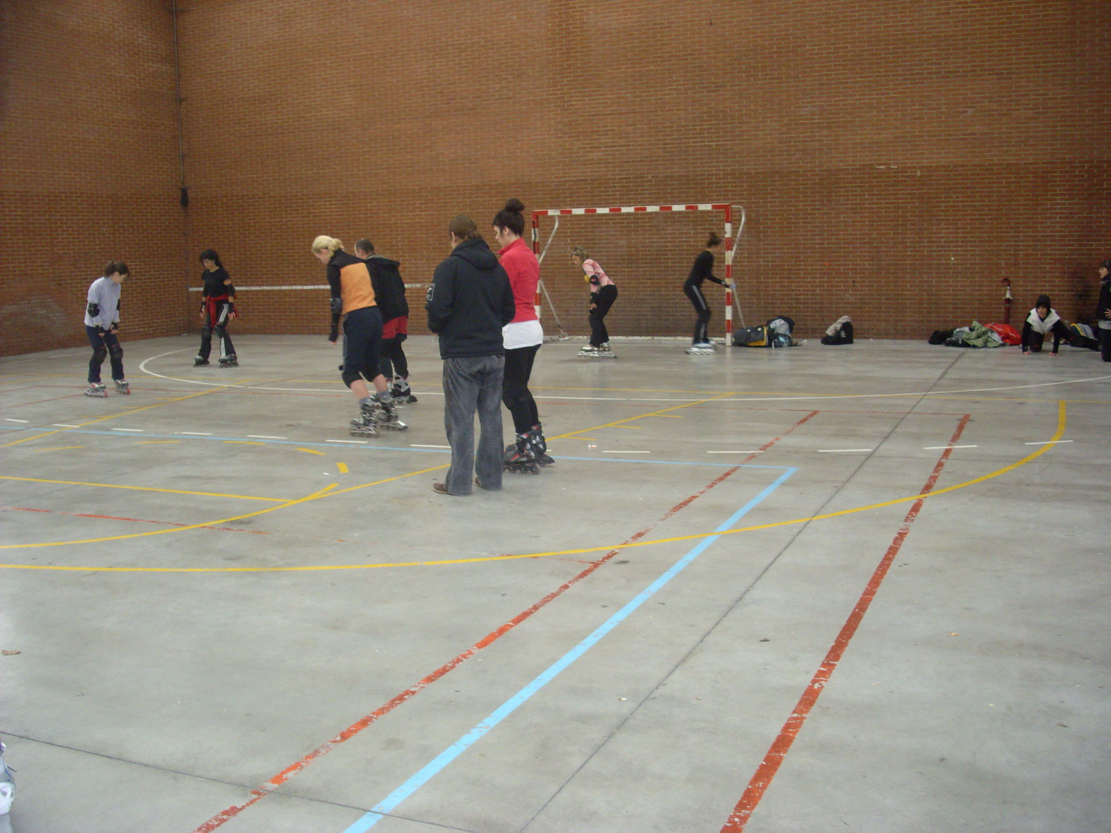 People skating in Laudio (es. Llodio), Basque Country.